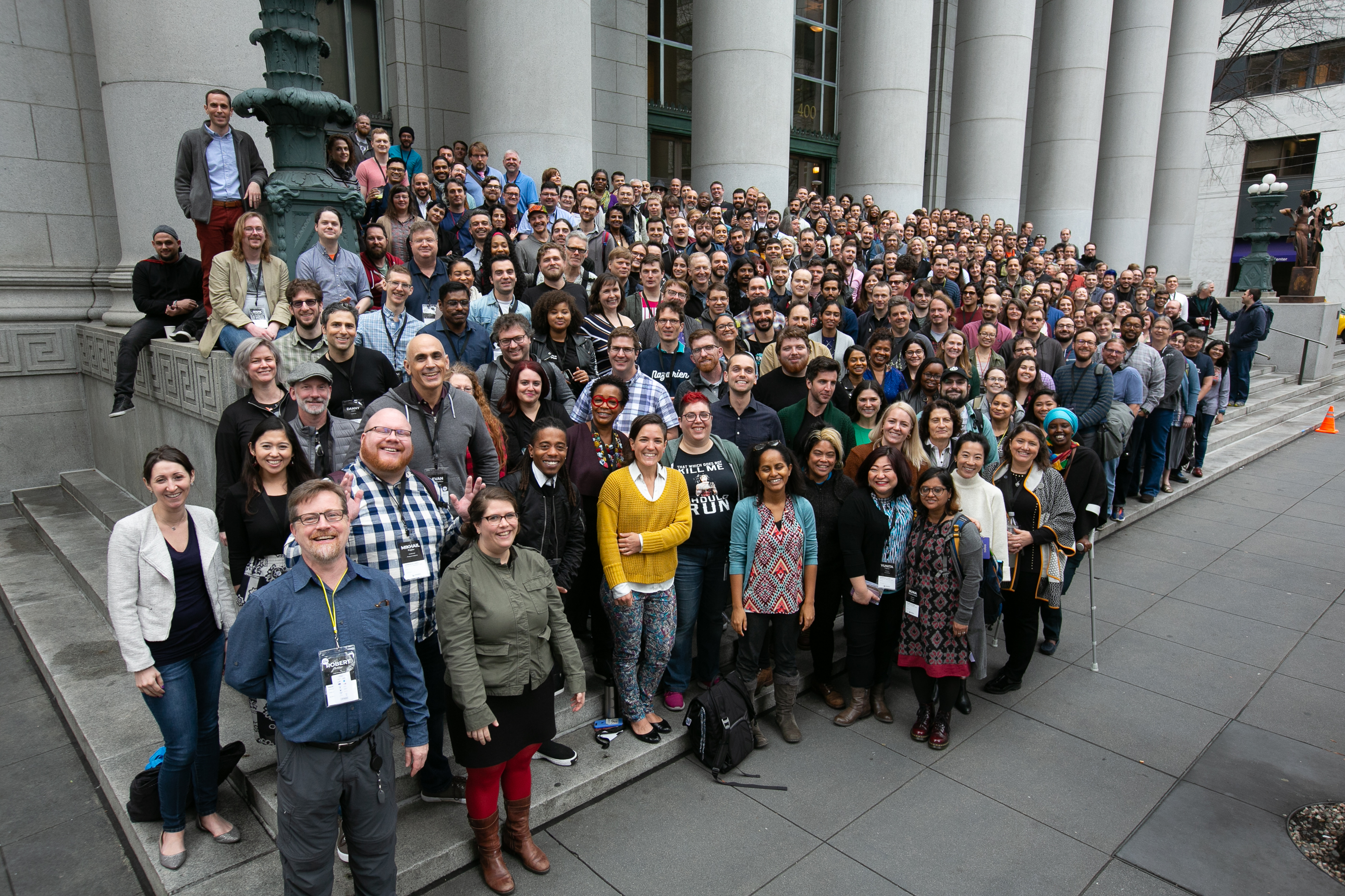 Wikimedia All Hands 2019 Group Photo